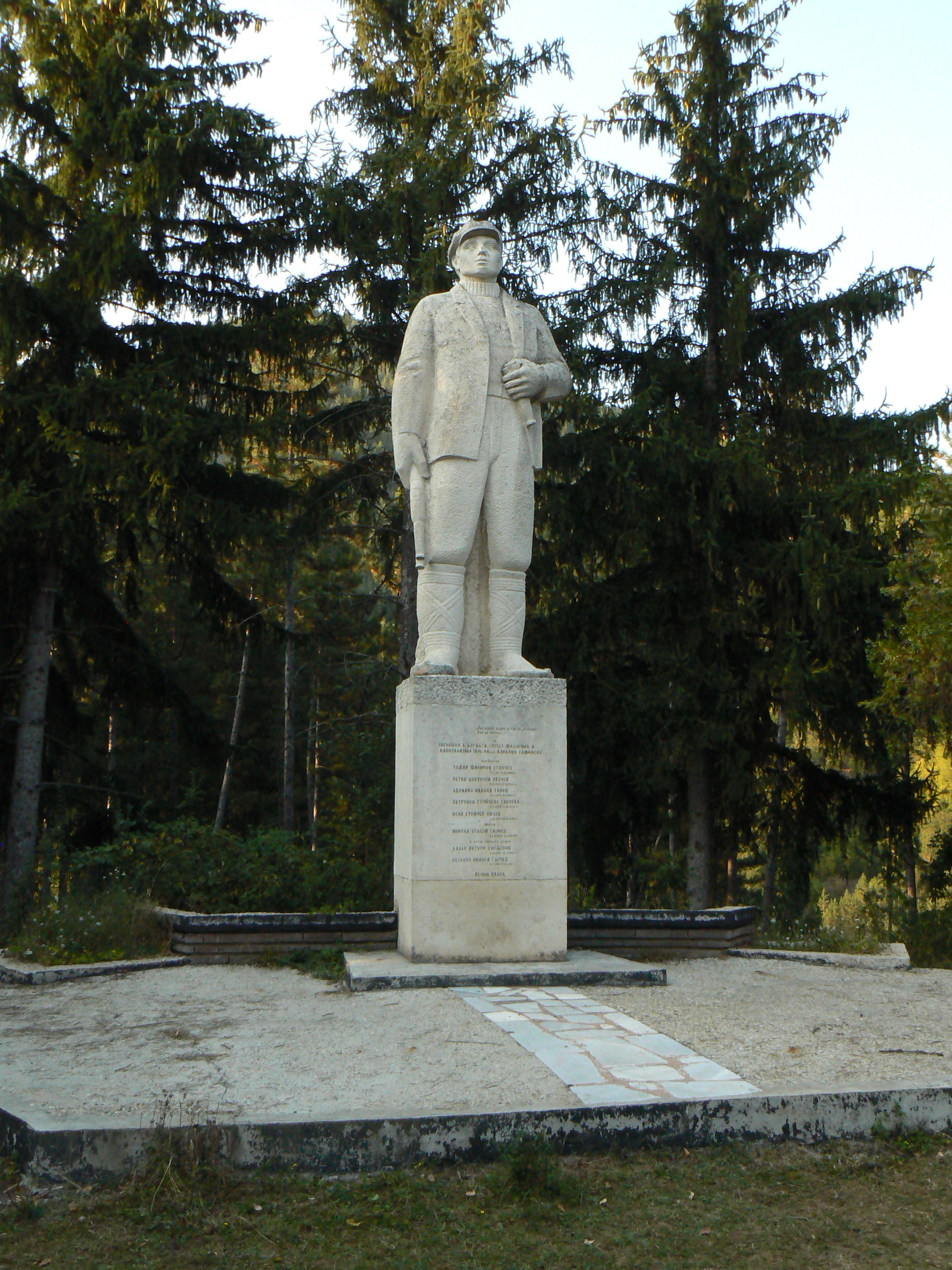 War memorial in village Bakyovo, Bulgaria